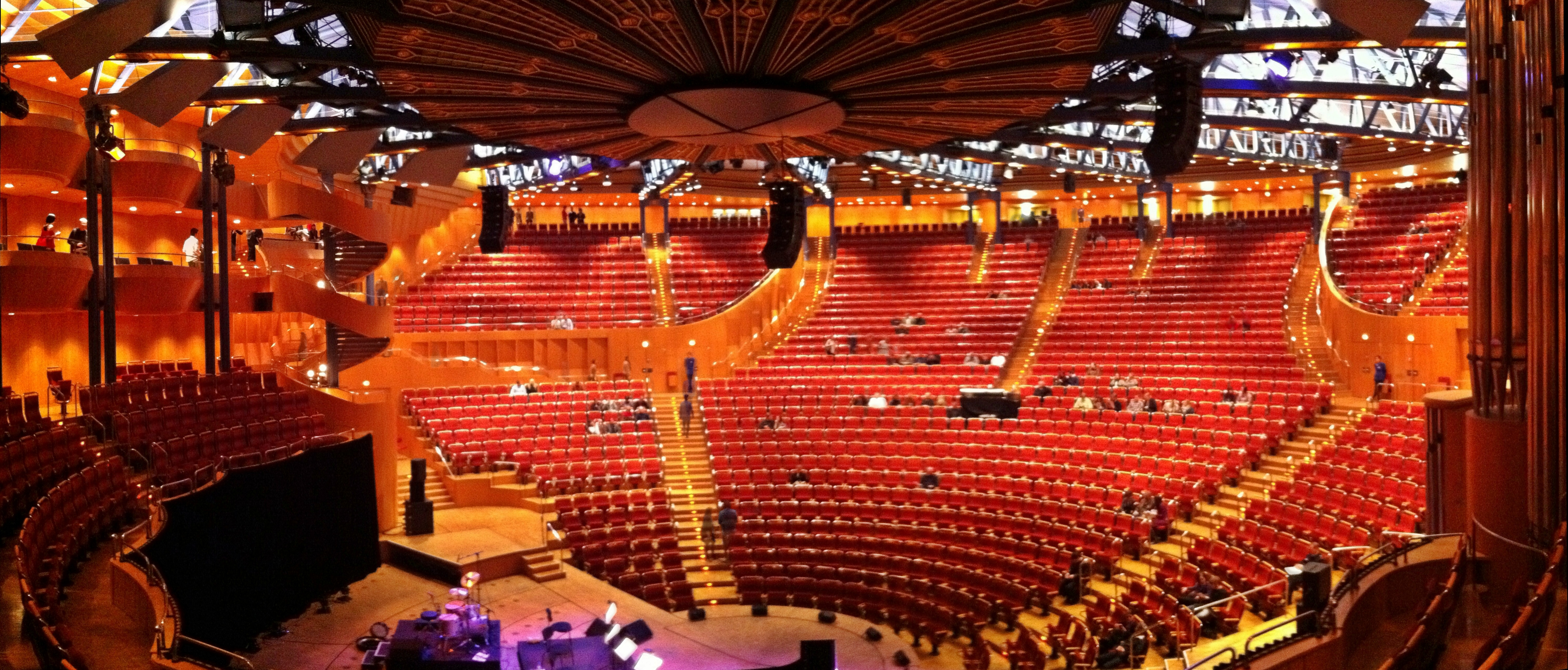 Kölner Philharmonie, concert hall, panorama shot